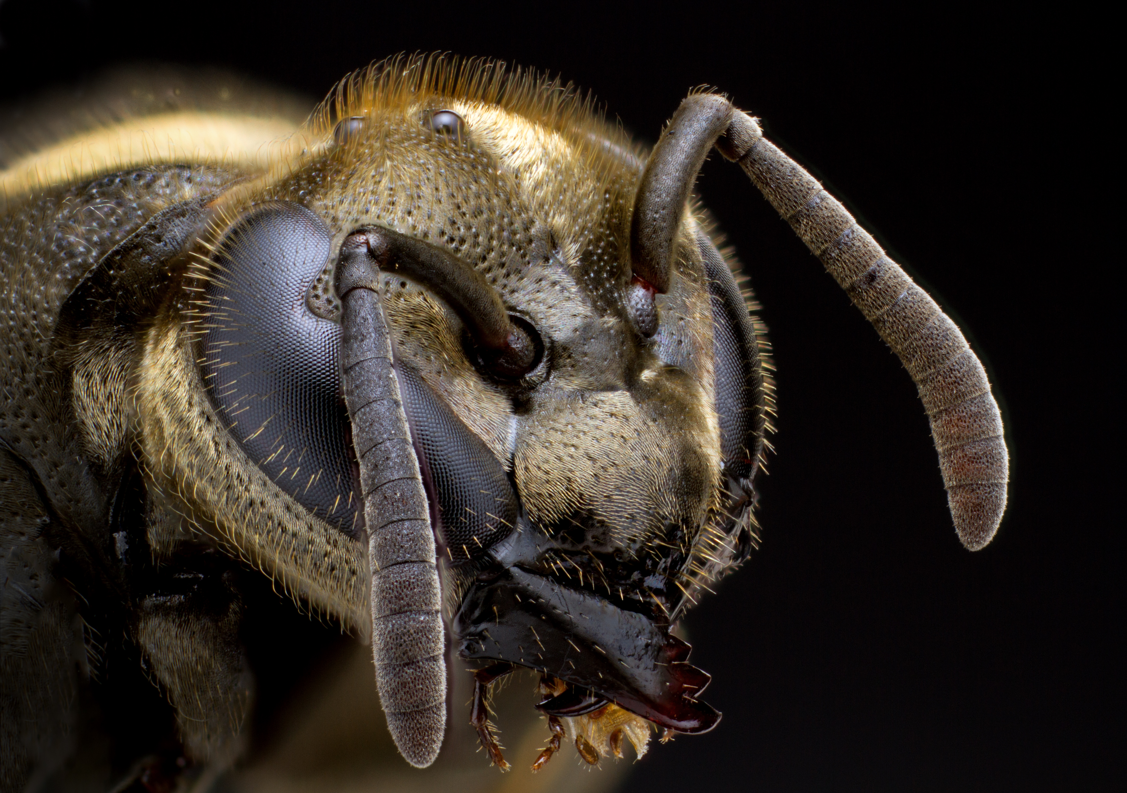 Close-up of the Mexican Honey Wasp (Brachygastra mellifica)